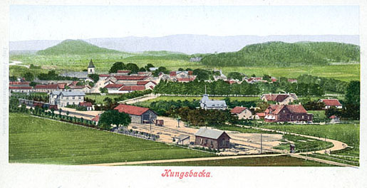 Kungsbacka from the north